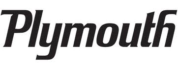 1960s and 1970s Plymouth logo